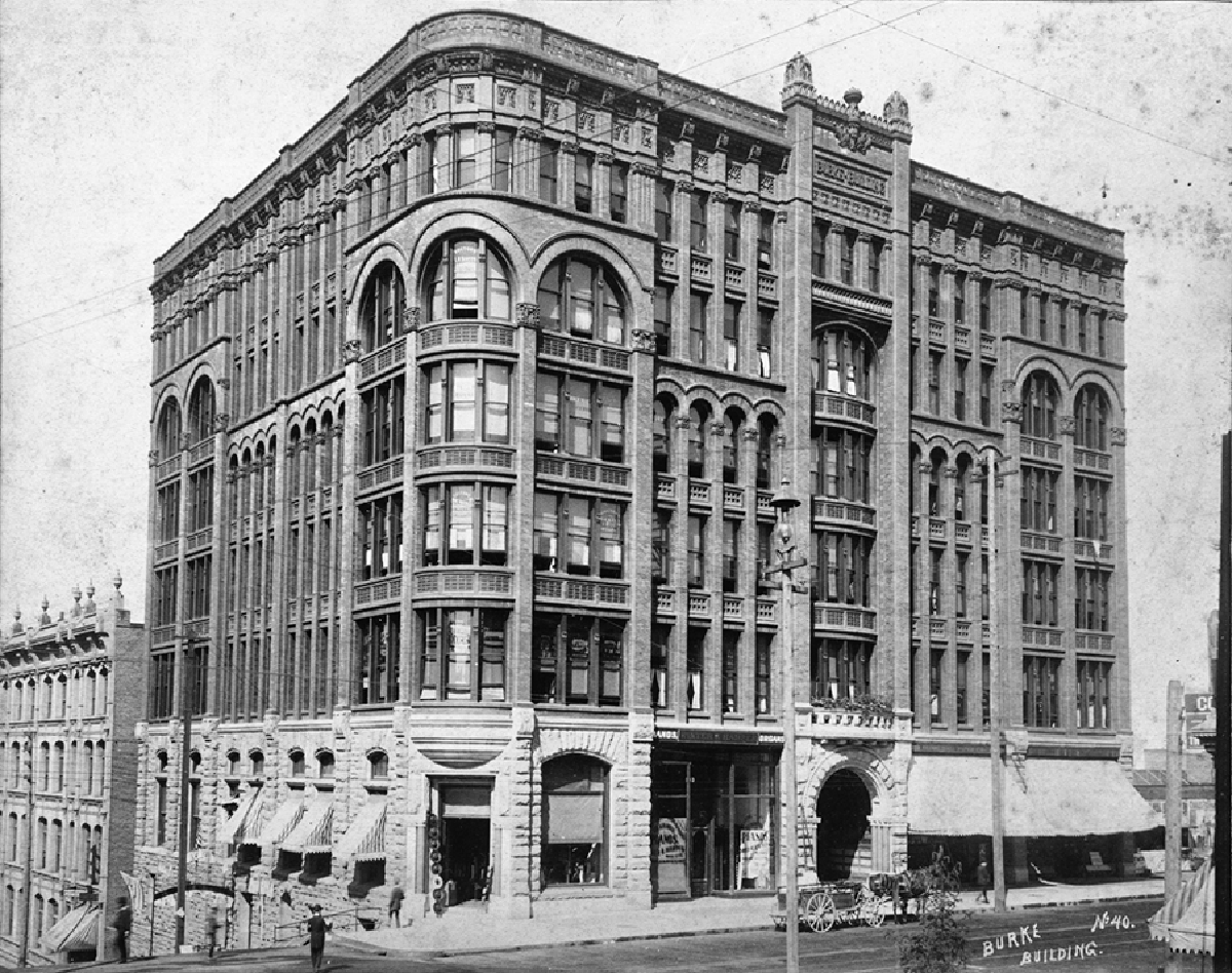 The Burke Building, Seattle Washington, 1900, and at left part of the Hotel Stevens. These buildings were razed for the Henry M. Jackson Federal Building. Item 65330, Miscellaneous Prints (Record Series 9910-01), Seattle Municipal Archives.